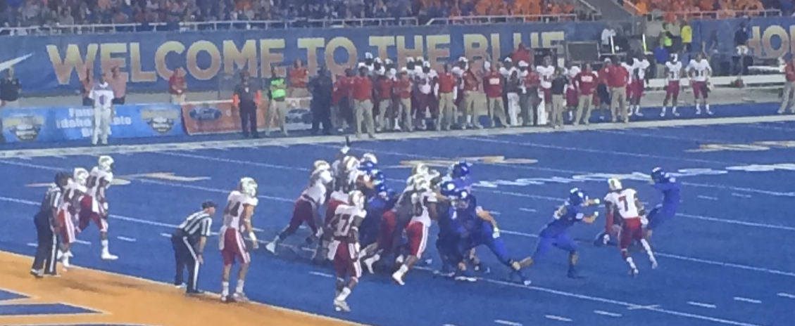 Boise State kicking an extra point during their game vs Louisiana–Lafayette on September 20, 2014 at Albertsons Stadium in Boise, Idaho.